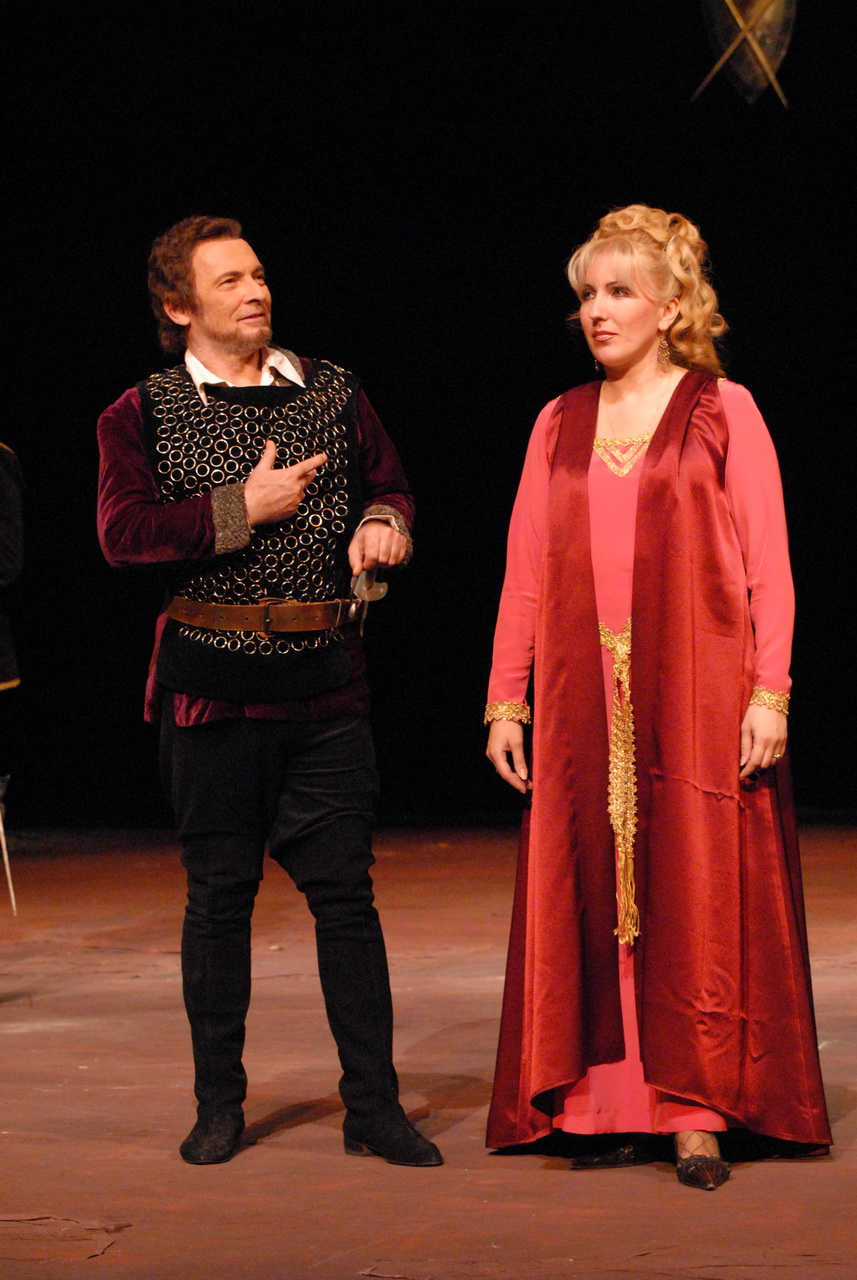 "The Troubadour", an opera in four acts by Giuseppe Verdi, directed by Voja Soldatović, Opera of the SNT, Novi Sad, 2008/09; Branislav Vukasović (baritone), Sanela Mitrović (soprano) Srpski (latinica): "Trubadur", opera iz četiri čina Đuzepe Verdija u režiji Voje Soldatovića; Opera SNP-a, Novi Sad, 2008/09; Branislav Vukasović (bariton), Sanela Mitrović (sopran) Српски (ћирилица): "Трубадур", опера из четири чина Ђузепе Вердија у режији Воје Солдатовића; Опера СНП-а, Нови Сад, 2008/09; Бранислав Вукасовић (баритон), Санела Митровић (сопран)